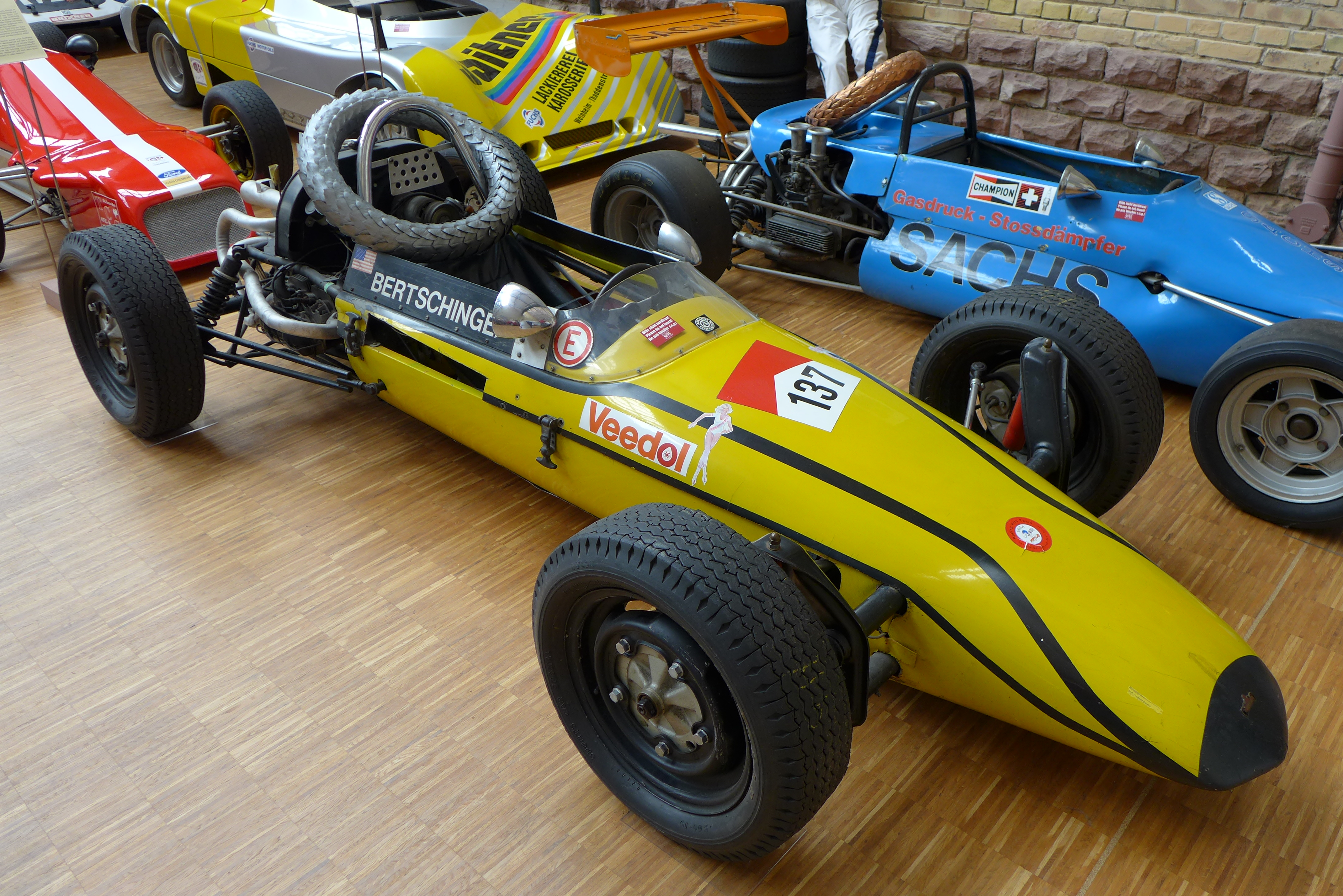 A 1967 Austro V Formula Vee racing car, made by Porsche Salzburg KG, on display at the Automuseum Dr. Carl Benz, Ladenburg, Baden-Württemberg, Germany. According to the museum, this car was probably raced by Niki Lauda, who later became World Drivers' Champion.